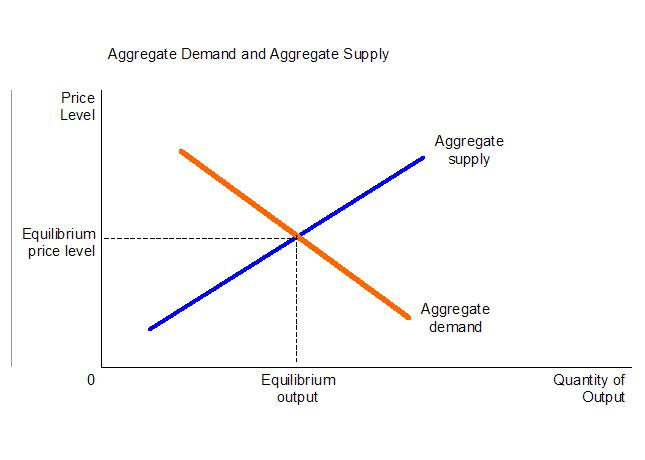 Diagram of relationship between aggregate demand and aggregate supply according to macroeconomic theory.